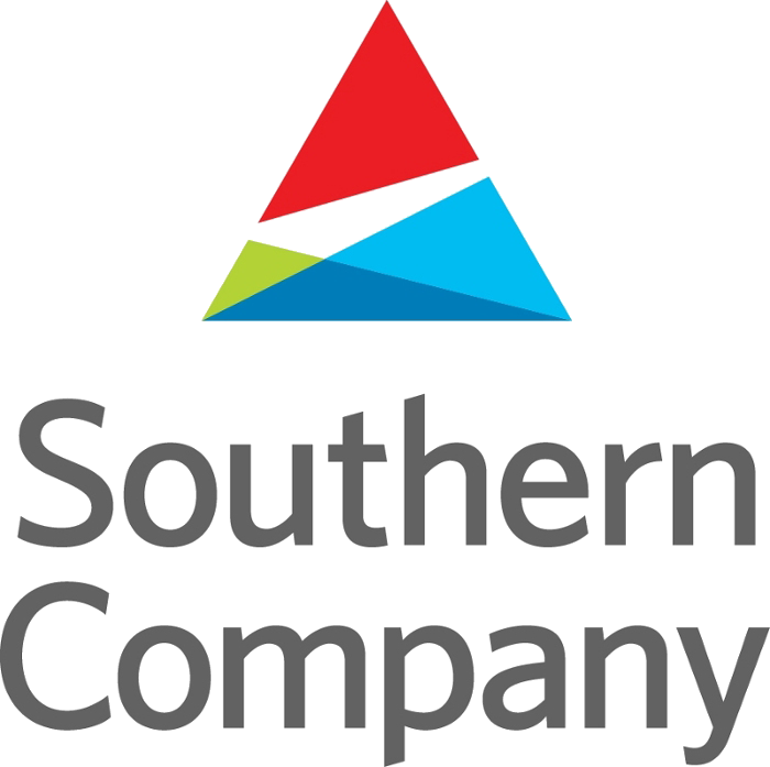 This is the logo for Southern Company